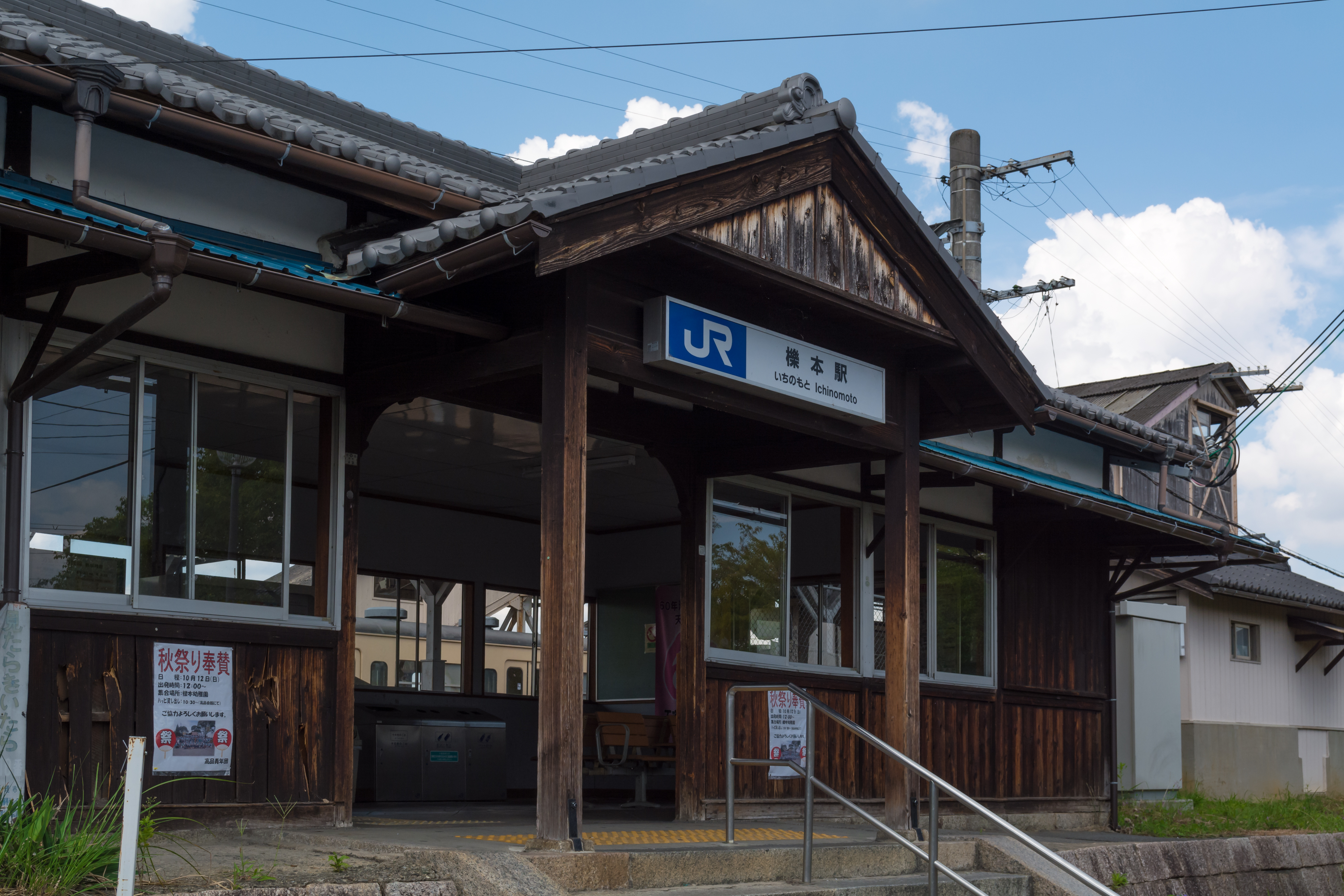 JR West Ichinomoto Station